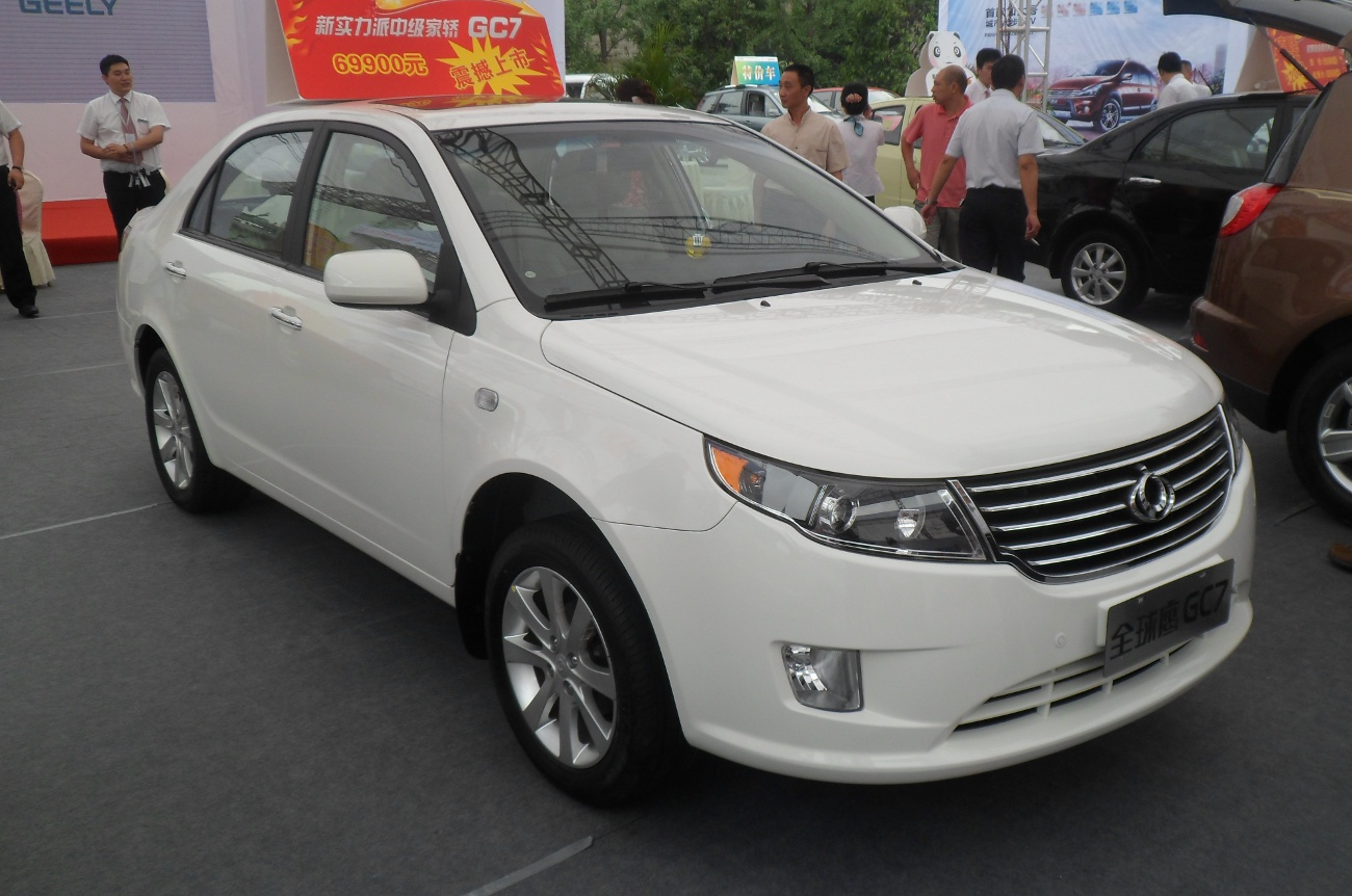 Gleagle GC7 photographed at the 2012 Chongqing Auto Show, Chongqing, China.